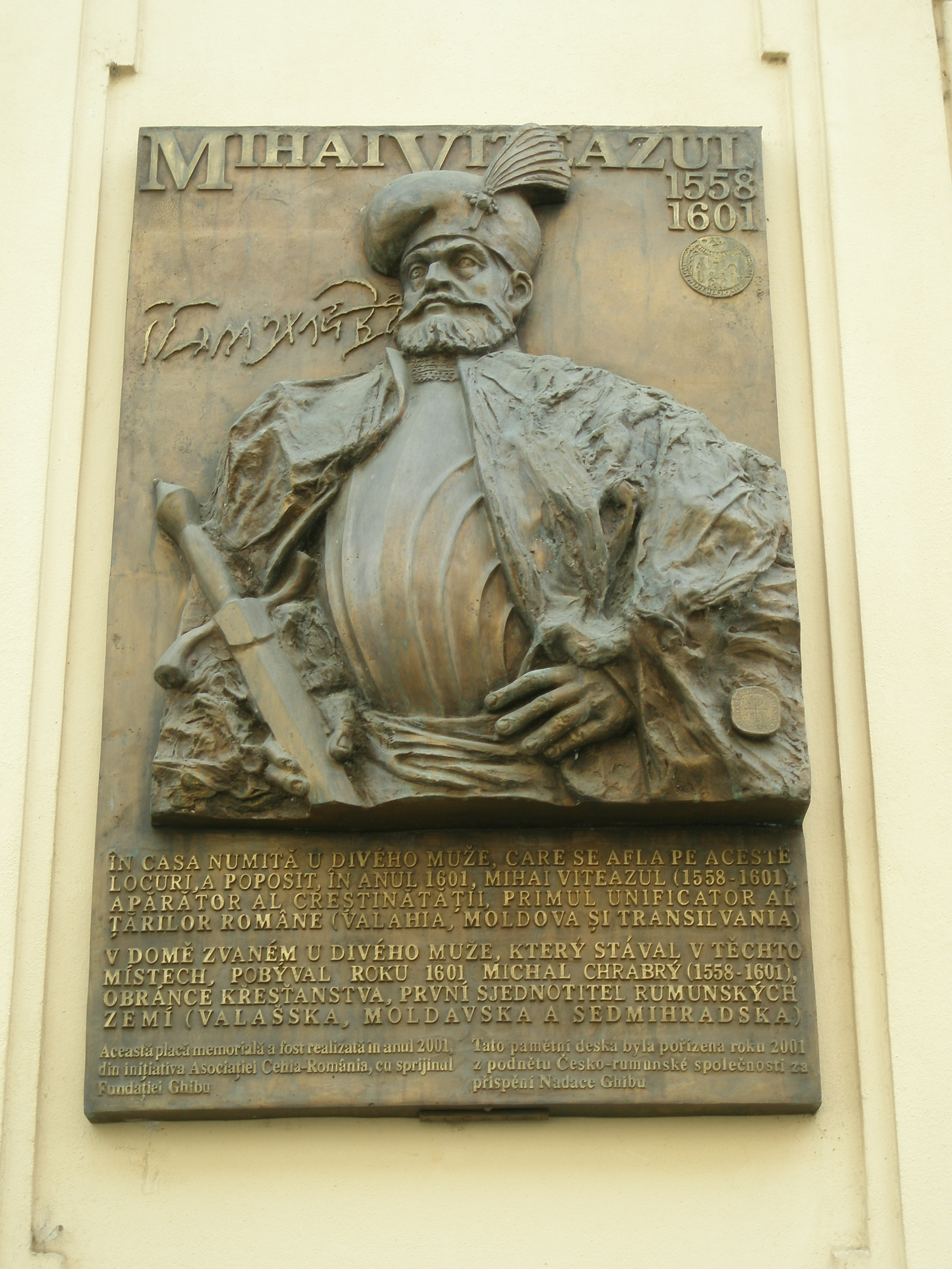 Home of Mihail Viteazul, Nerudova street, Mala Strana, Prague (today Romanian Embassy)